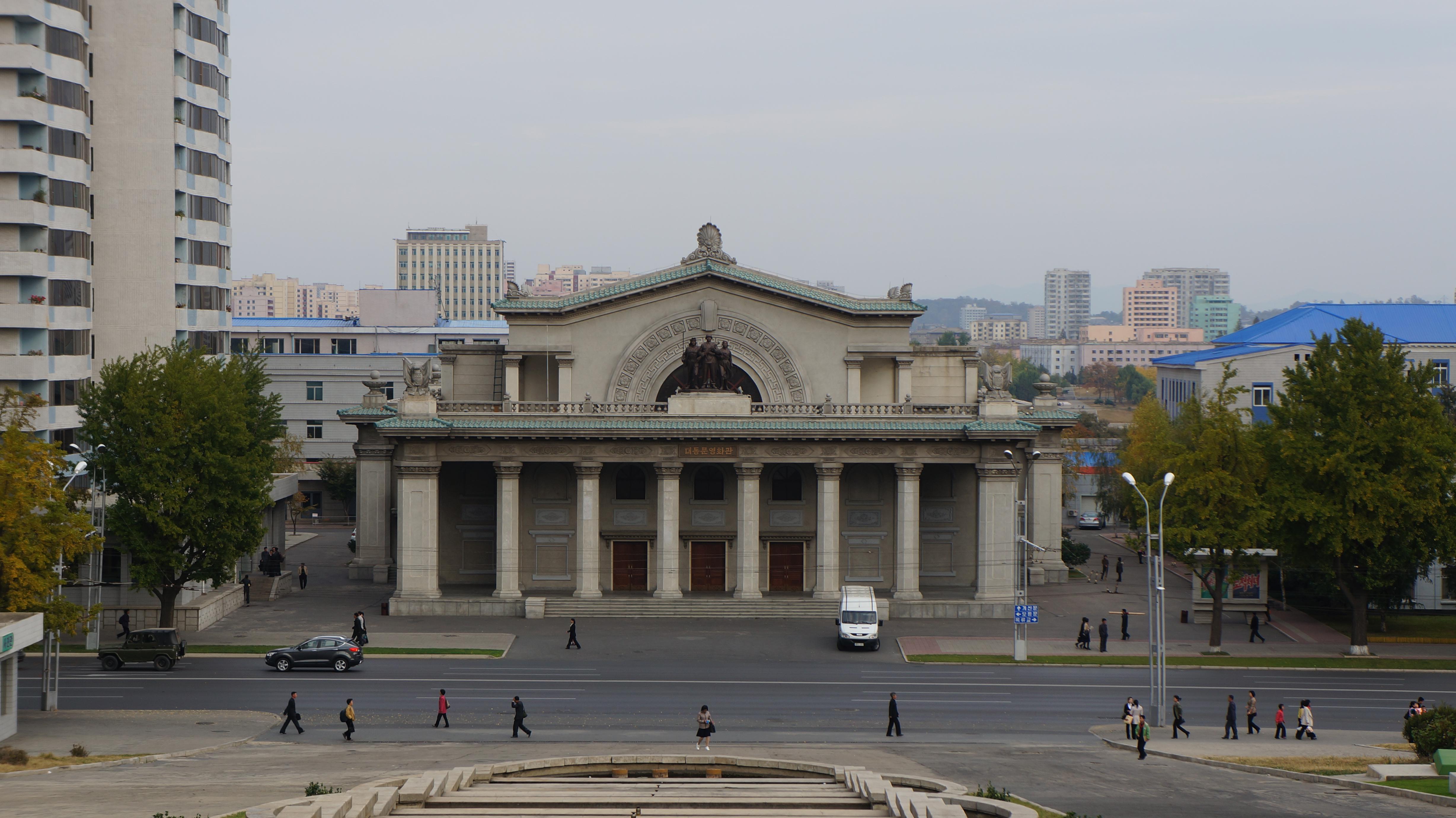 North Korea DPRK